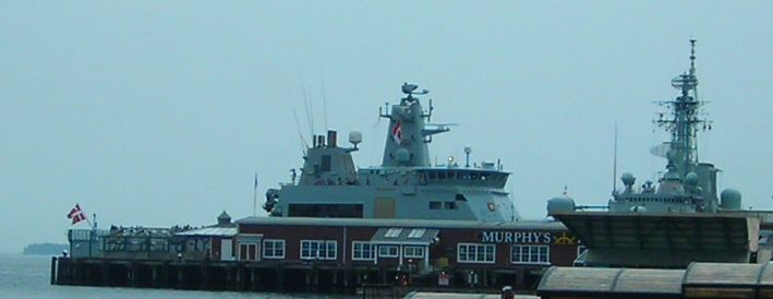 The vessel HDMS Ejnar Mikkelsen (P571) anchored in Halifax Harbour during the Halifax International Fleet Review, behind a local restaurant. To the right of the main gun a part of the HMCS Athabaskan (DDG 282) can be seen.